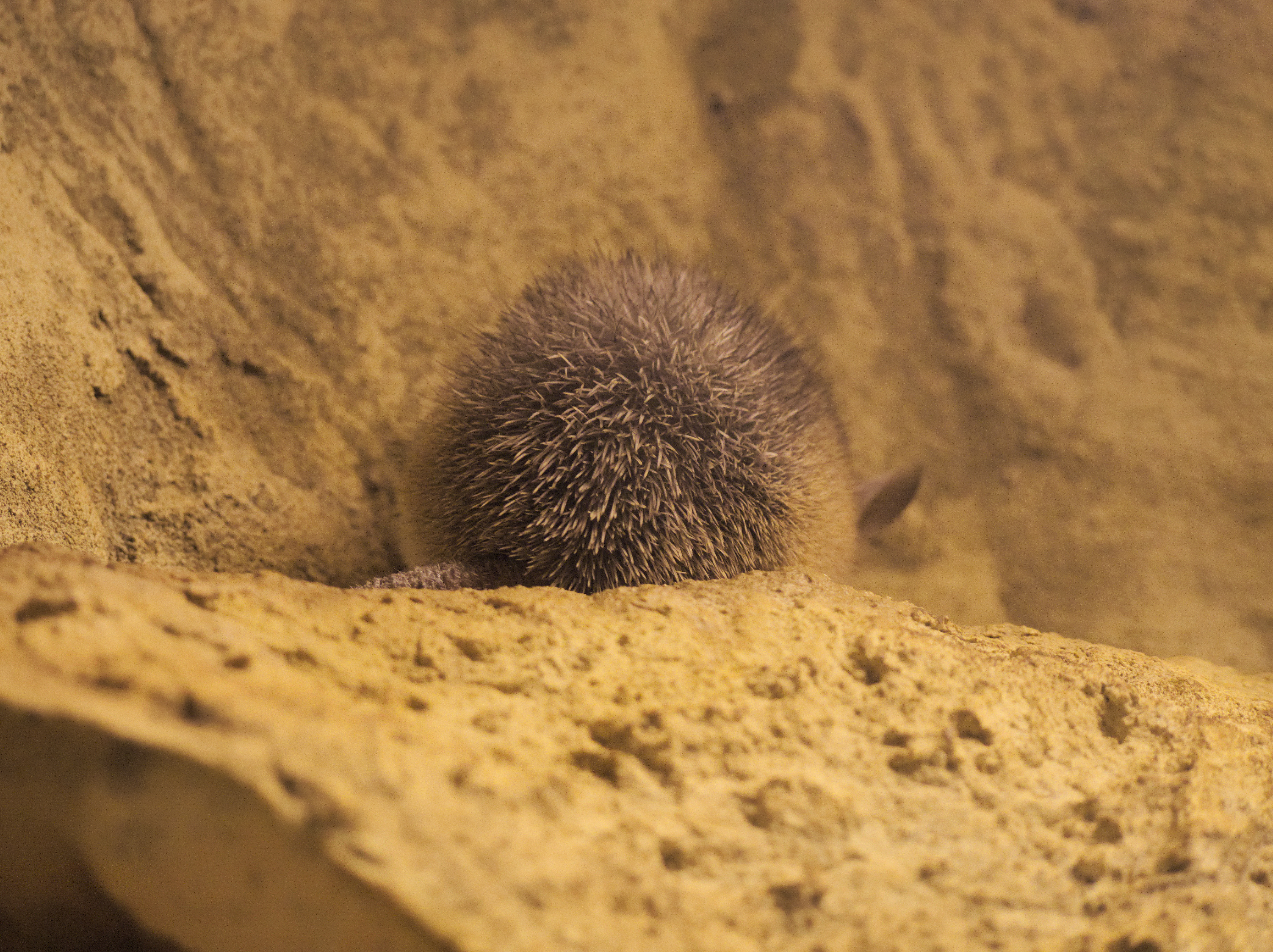 The back side of a Acomys minous, showing the spiny hairs. Part of the living museum exhibition of the Natural History Museum of Crete.